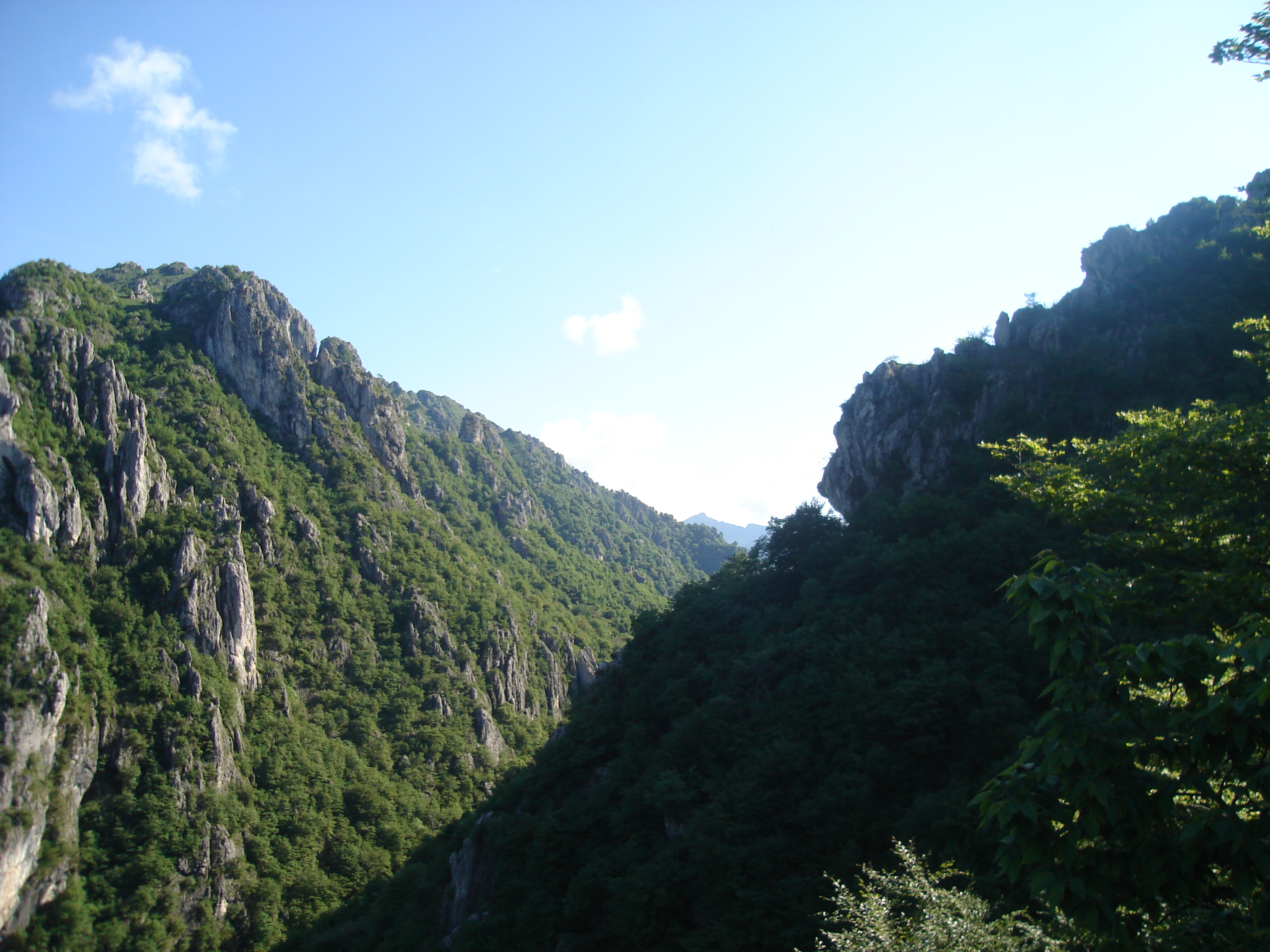 Natural Reserve, Lugan Lake, Italy